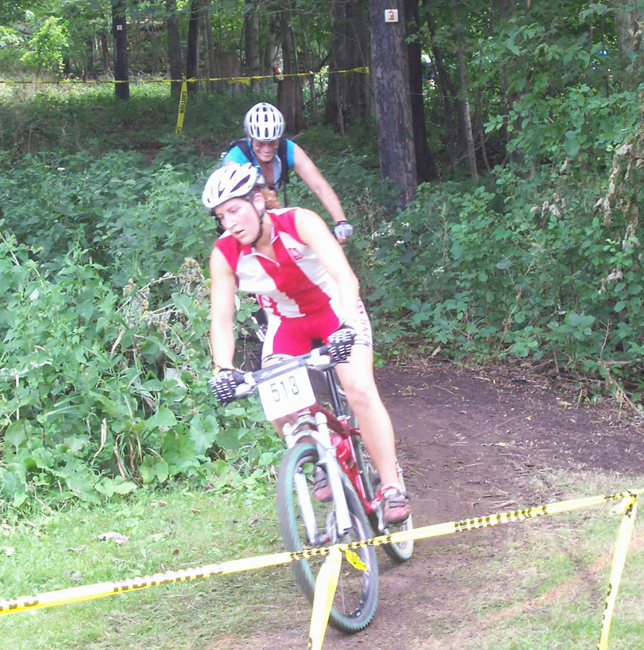 Wisconsin Off Road Series drivers competing at a series race at the Calumet County Park near Stockbridge, Wisconsin, United States. I took this image myself on August 6, 2006 (date on camera was set wrong). This image is a child of the English Wikipedia image Image:WORSRace.jpg, for it was cropped from that image's original on my harddrive.